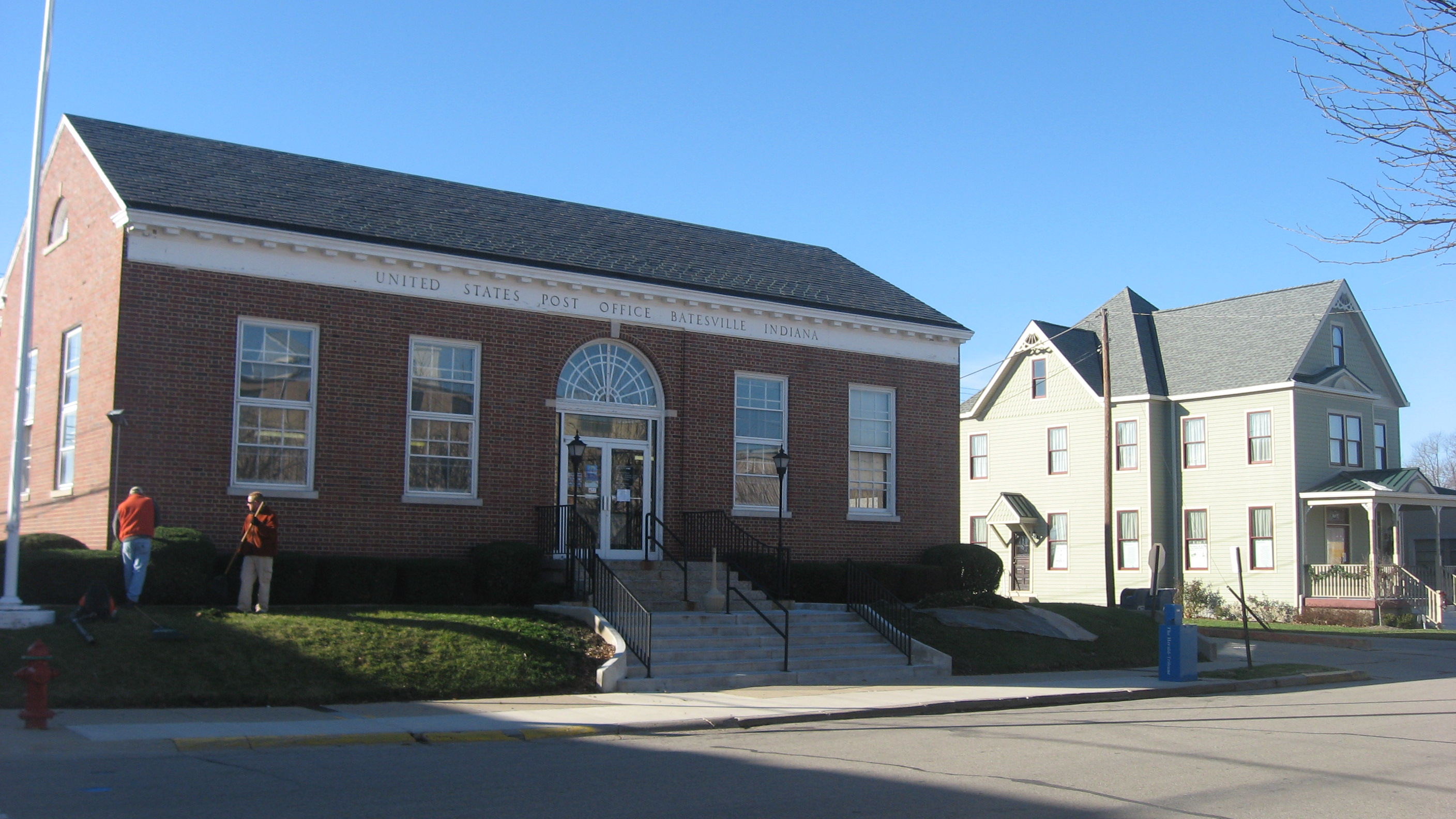 The post office and historical museum in Batesville, Indiana, United States, located at 3 and 15 W. George Street respectively. Built in 1937 and 1900 respectively, they are part of the Central Batesville Historic District, a historic district that is listed on the National Register of Historic Places.